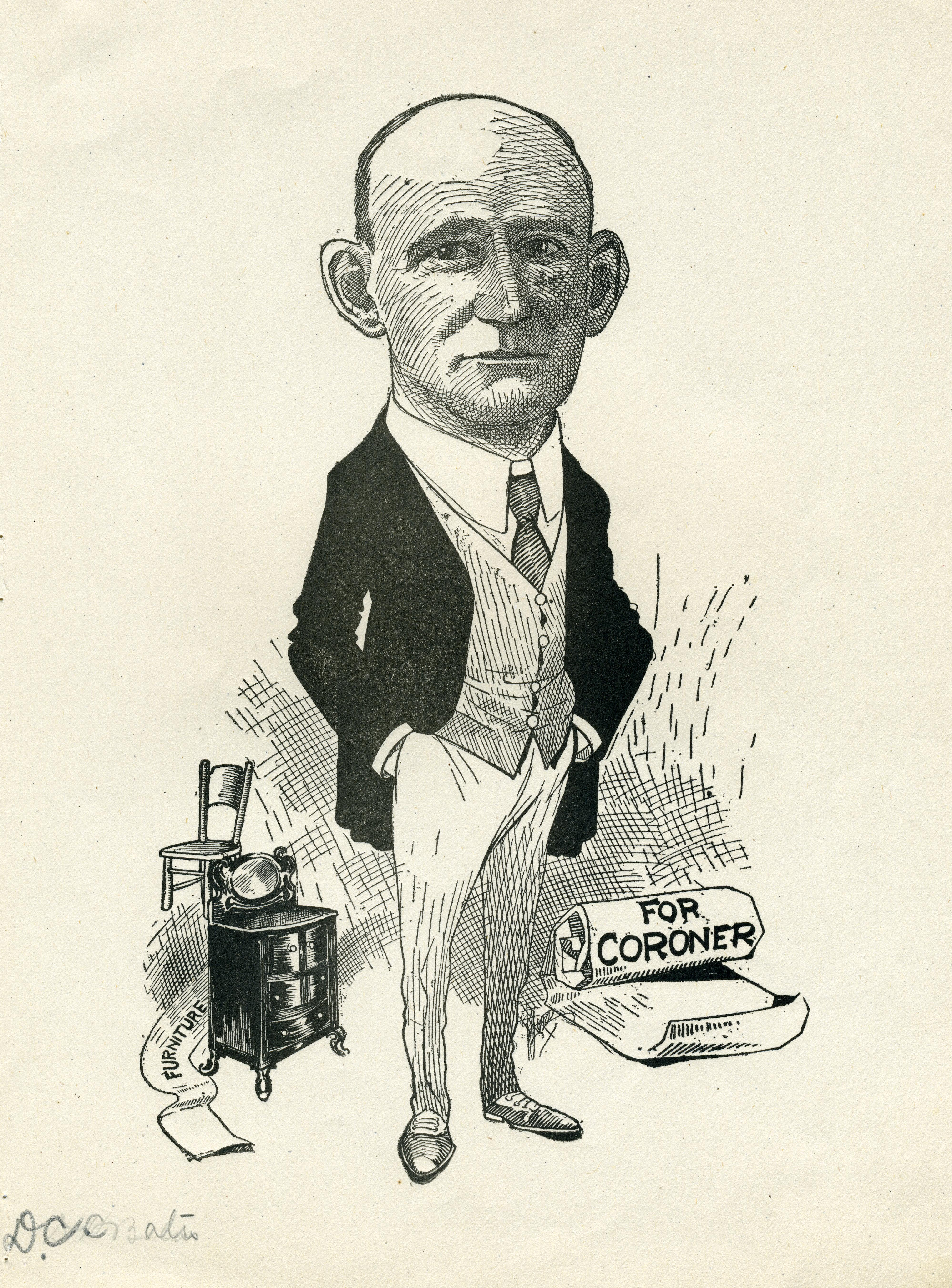 Caricature drawing of D.C. Bates, candidate for Thurston County (Washington) Coroner, c 1908